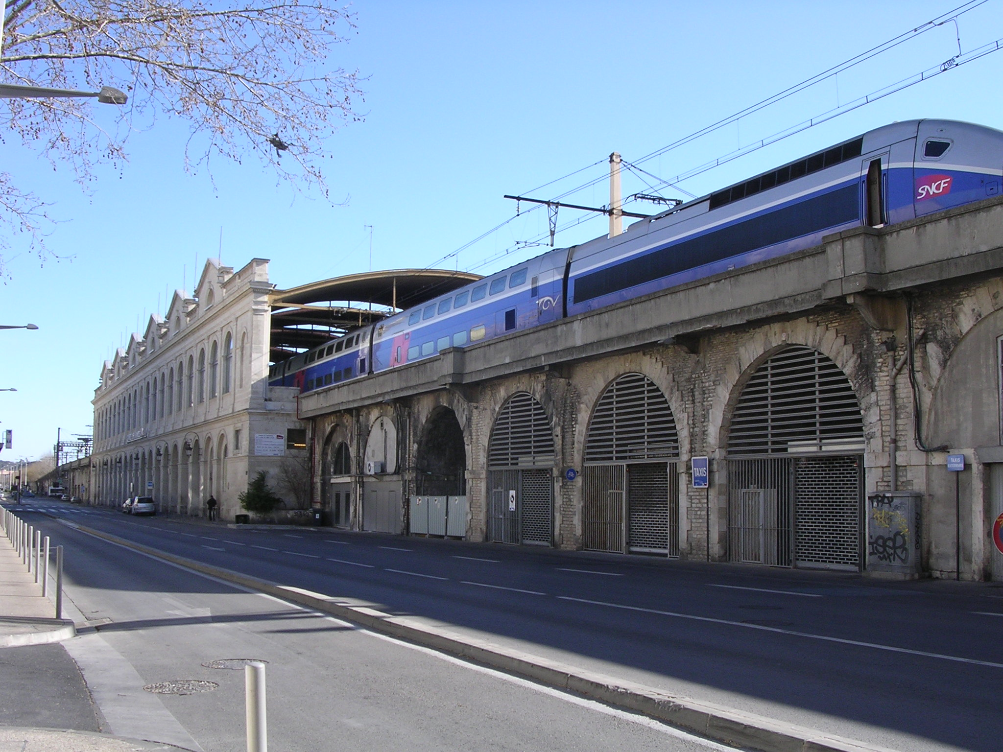 A TGV duplex in the station of Nîmes